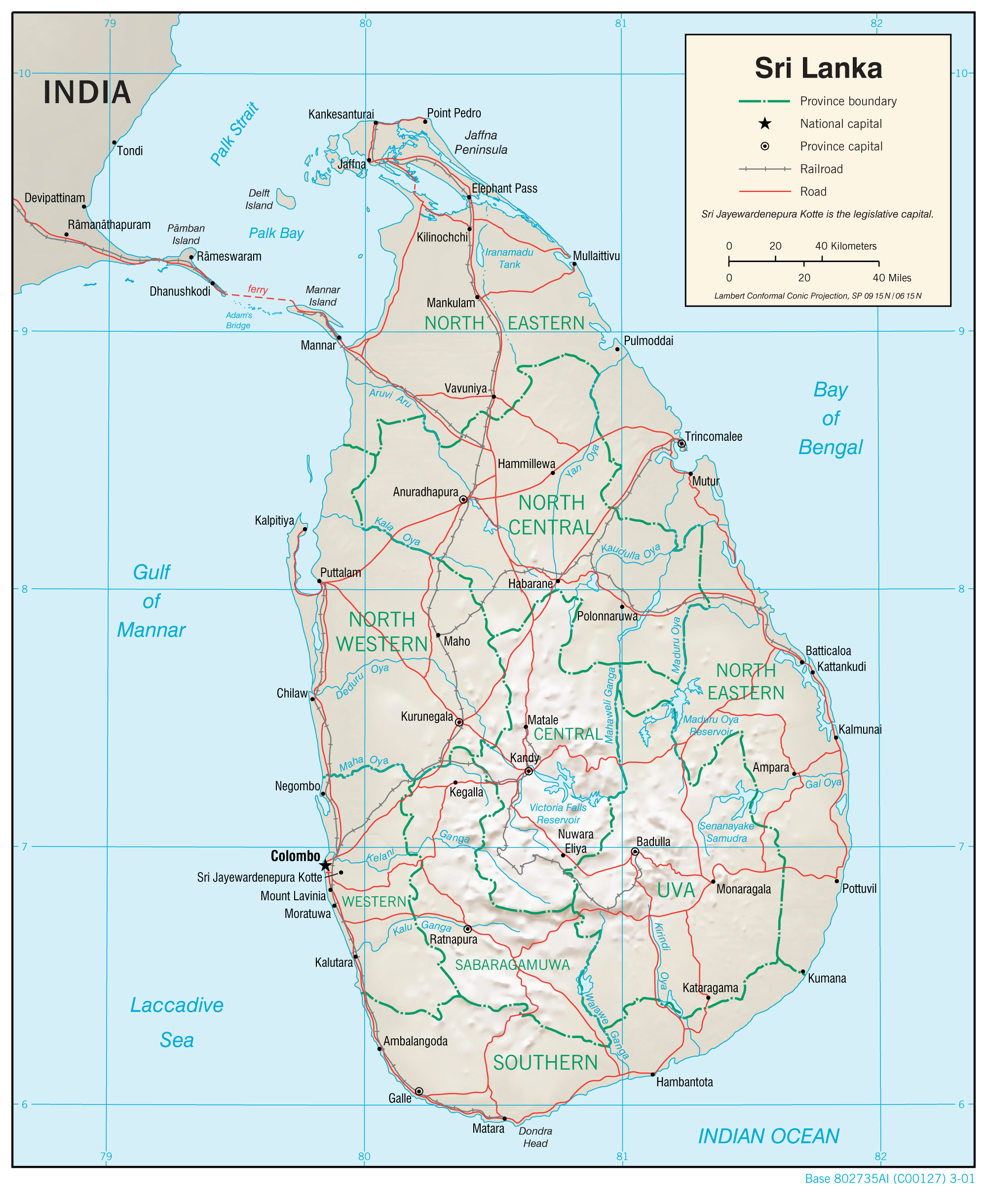 Topographic map of Sri Lanka (shaded relief), 2001.